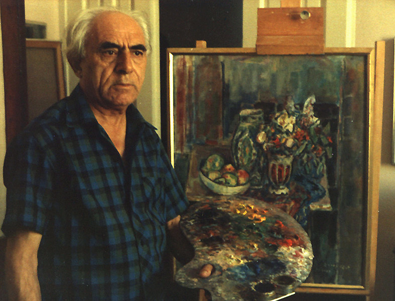 Picture of artist Chaim Gliksberg at his studio at home in Tel-Aviv